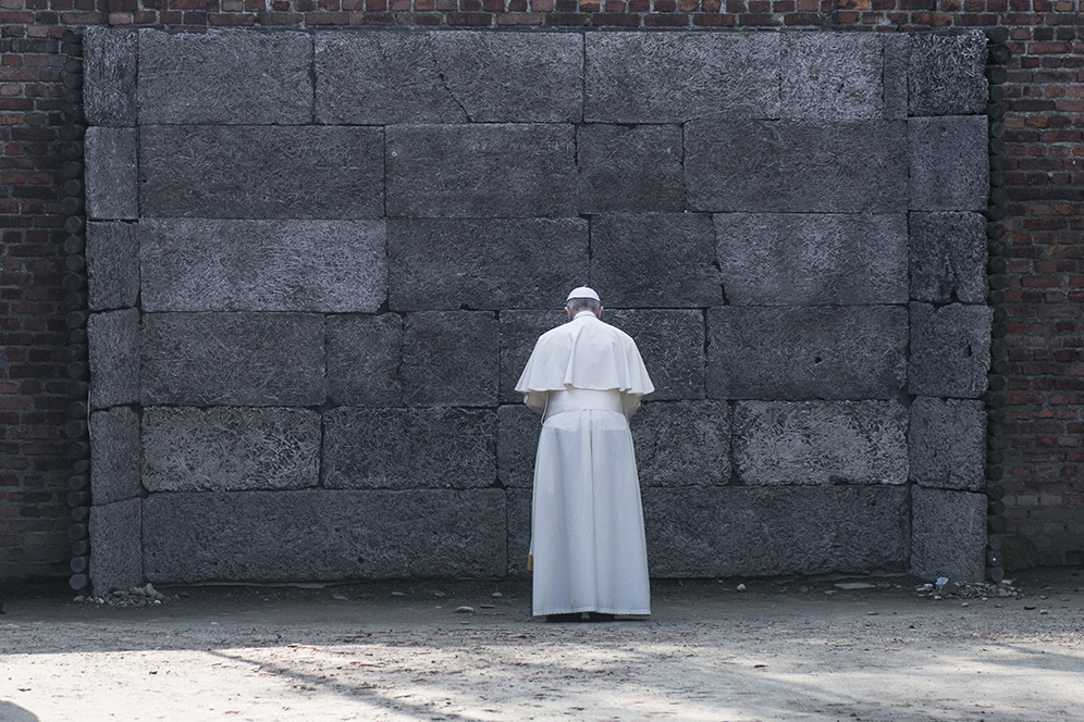 2016.07.29, Oświęcim | Premier Beata Szydło powitała w piątek Ojca Świętego Franciszka na terenie byłego obozu Auschwitz-Birkenau. Premier i papież wspólną modlitwą i zapaleniem zniczy uczcili pamięć ofiar Holokaustu. fot. P. Tracz / KPRM